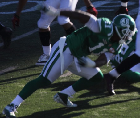 The Saskatchewan Roughriders, played the Calgary Stampeders in Regina, Saskatchewan at Mosaic Stadium at Taylor Field on September 23, 2012 at 2:00 p.m. Both teams play in the Canadian Football League West Division|West Division of the Canadian Football League. The game concluded with a score of Roughriders 30 Stampeders 25. Calgary Stampeders Quarter Back 15 Kevin Glenn under pressure escapes this tackle. 4th quarter Durant Dresser Doubly Dangerous Riders Johnson: Stamps head into the stretch drive ~ With six games left, Calgary could still finish first or last in the wild West Roughriders contain Calgary's Jon Cornish to trip Stampeders 30-25 in Regina ~ Saskatchewan snaps Stamps' four-game winning streak to improve to 6-6 Game Story: Saskatchewan Roughriders 30, Calgary Stampeders 25 ~ Give the game balls to Riders’ Dressler, Lobendahn and Jackson Roughriders snap losing streak against Stampeders Stamps stopped by Riders